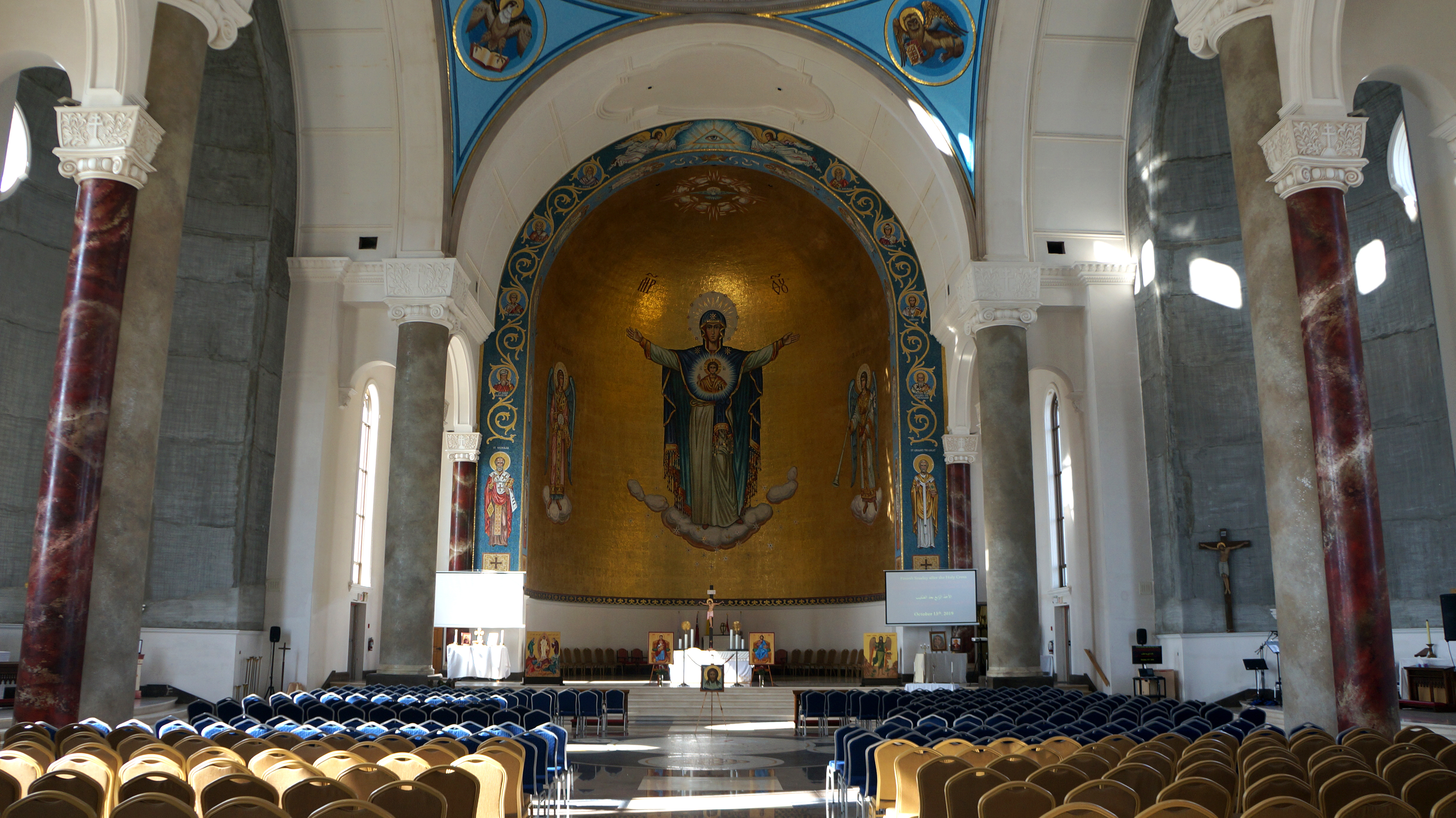 Interior of the Cathedral Of The Transfiguration in Markham, ON.